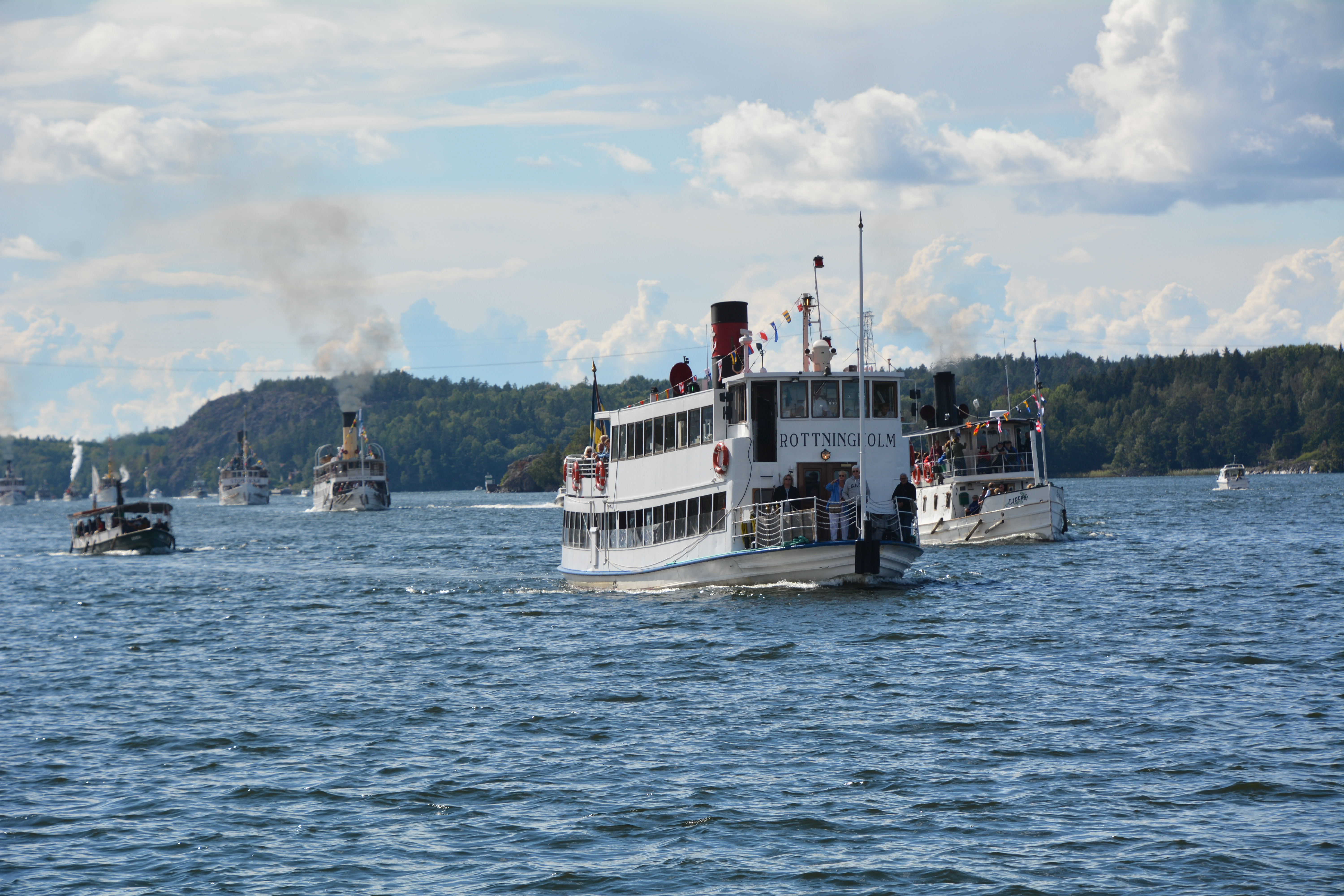 Steamships on Lake Mälaren close to Drottningholm Castle on August 26, 2018, celebrating 200 year jubilee of steamship passenger traffic in Sweden (1818 Stockholm-Drottninghom)